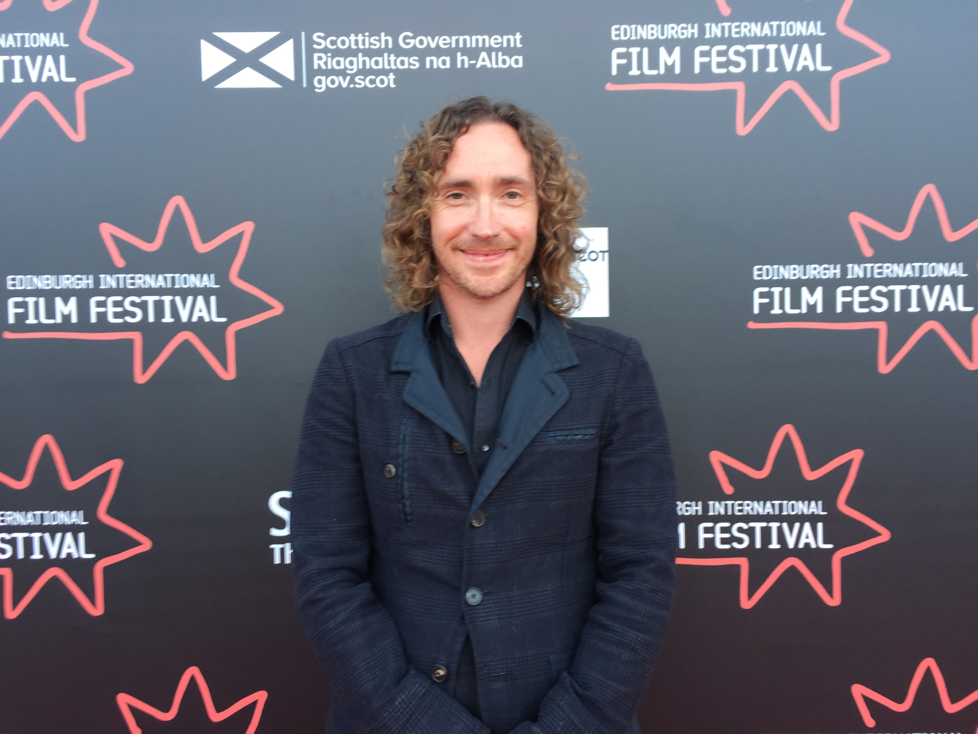 This is a photograph I took of Justin Edgar at the Edinburgh International Film Festival in June 2017, when he was visiting for the premiere of his film The Marker which was screening there.